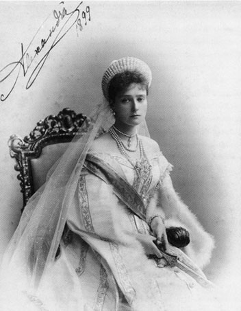 Alexandra Fyodorovna (Alix of Hesse)